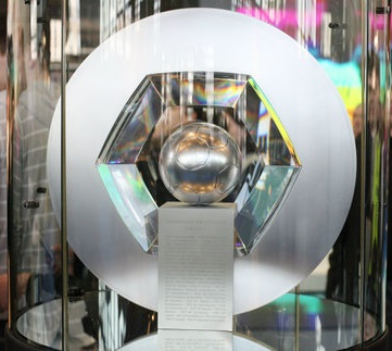 Hexagoal trophy in 2009